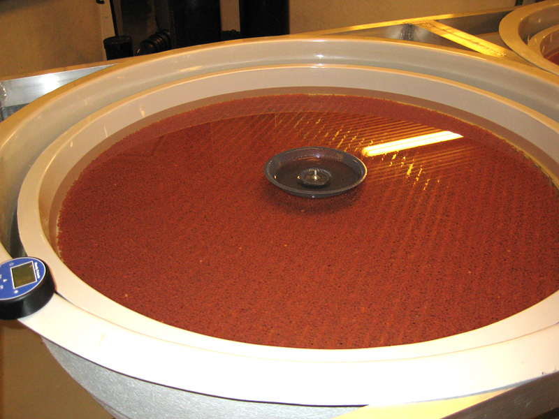 Fish hatching vessel. In this vessel is a lot of salmon eggs thats just about to be hatched. From fish-hatching company Bindalssmolt AS, Bindalen, Norway. (Owned by Sinkaberg-Hansen AS)